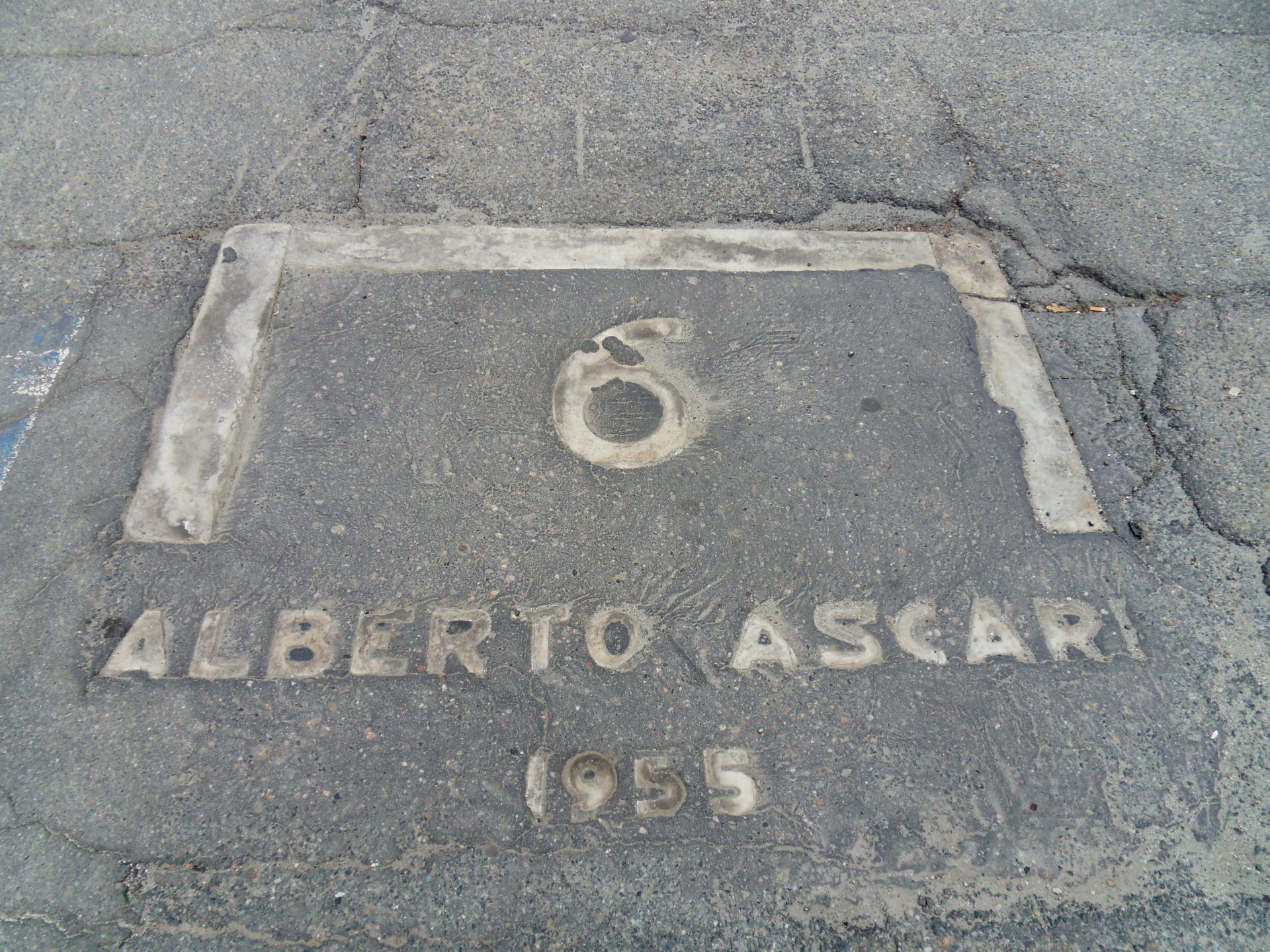 A placque carved in the road of Parco del Valentino in Turin to remember Alberto Ascari pole position in 1955.